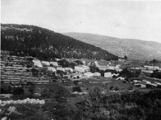 Kiryat Anavim 1944